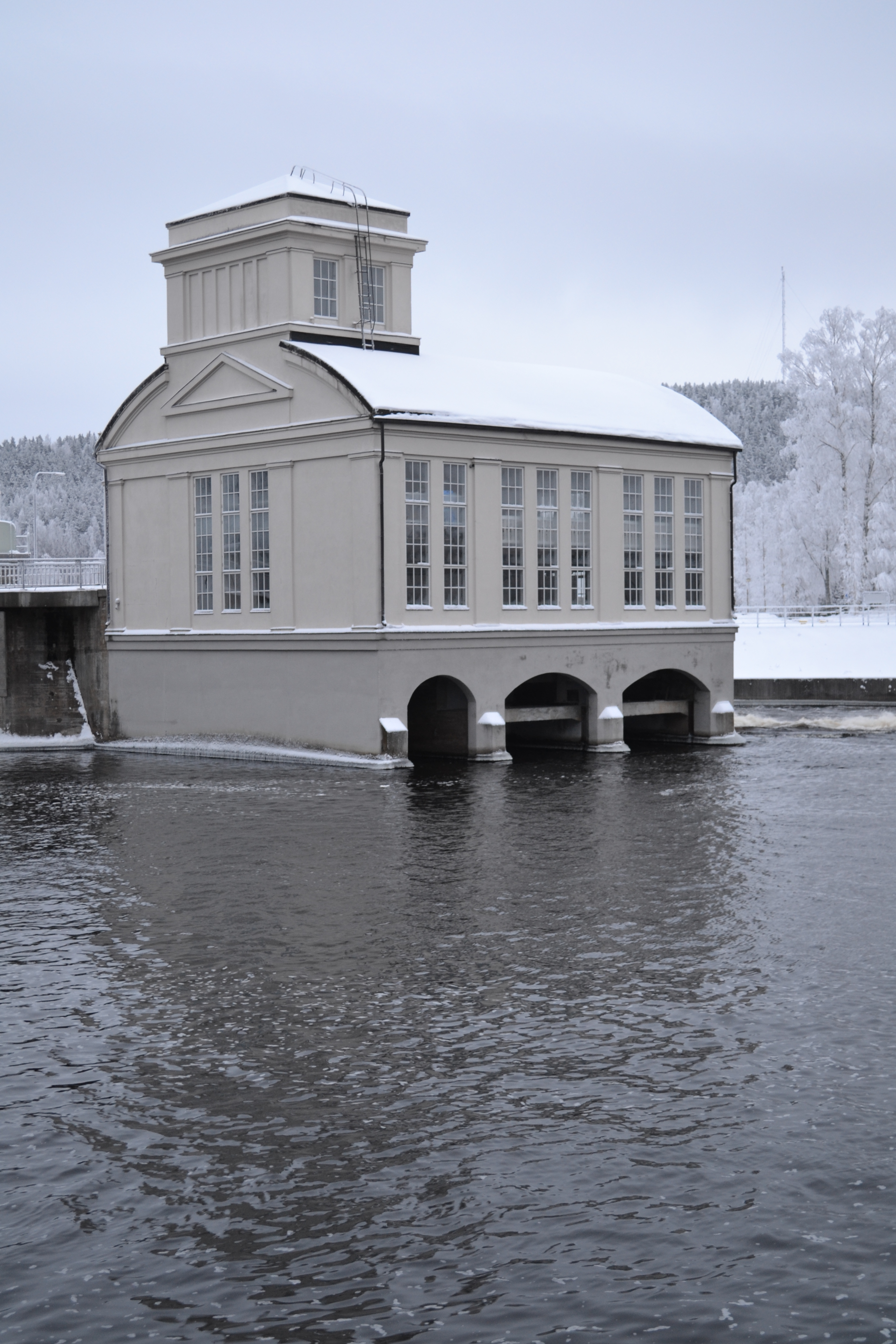 Vaajakoski old power plant in December 2012